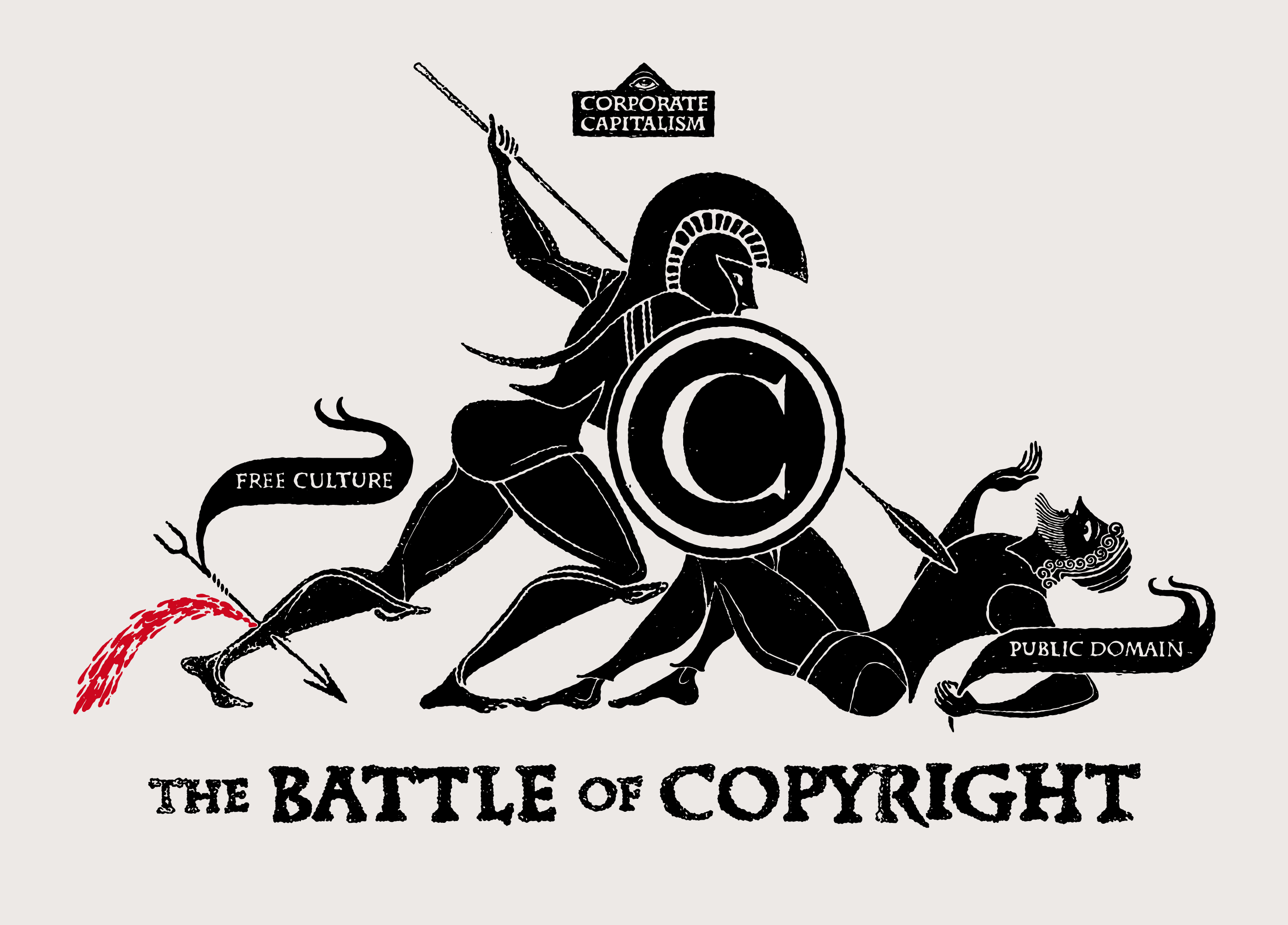 The most famous episode of the terrible intellectual property war.